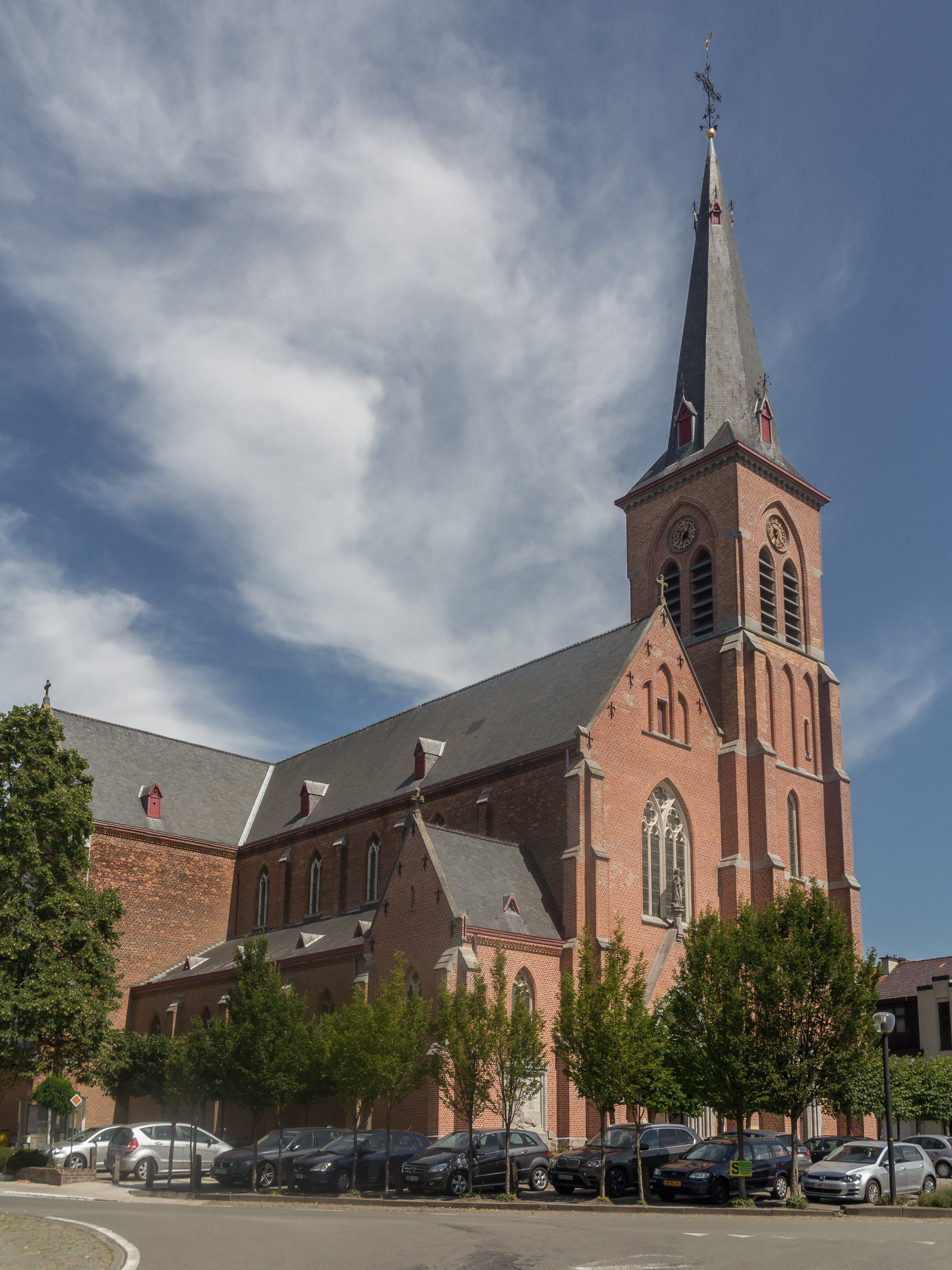 Knesselare, church: parochiekerk Sint-Willibrordus